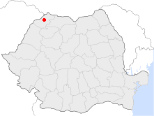 Location of Satu Mare in Romania.